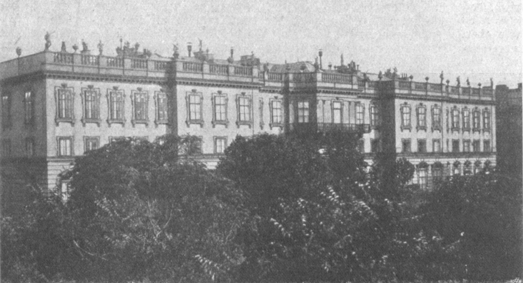 The Palace of Archduke Rainer in Vienna, Wieden